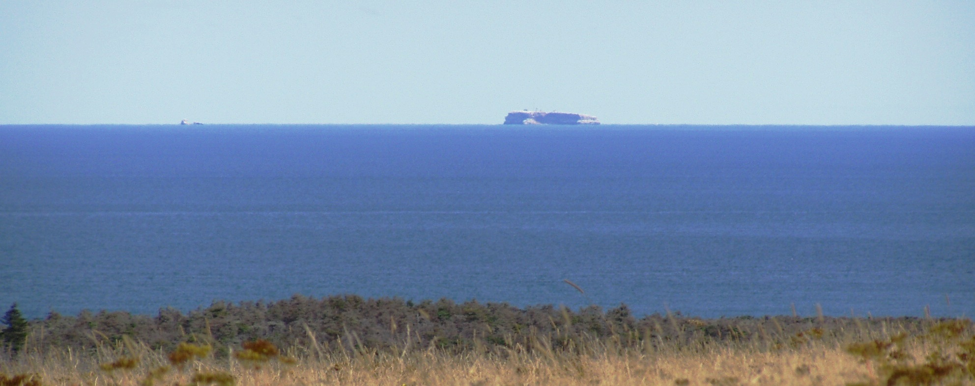 Northern tip of Brion Island with Bird Rock in the distance